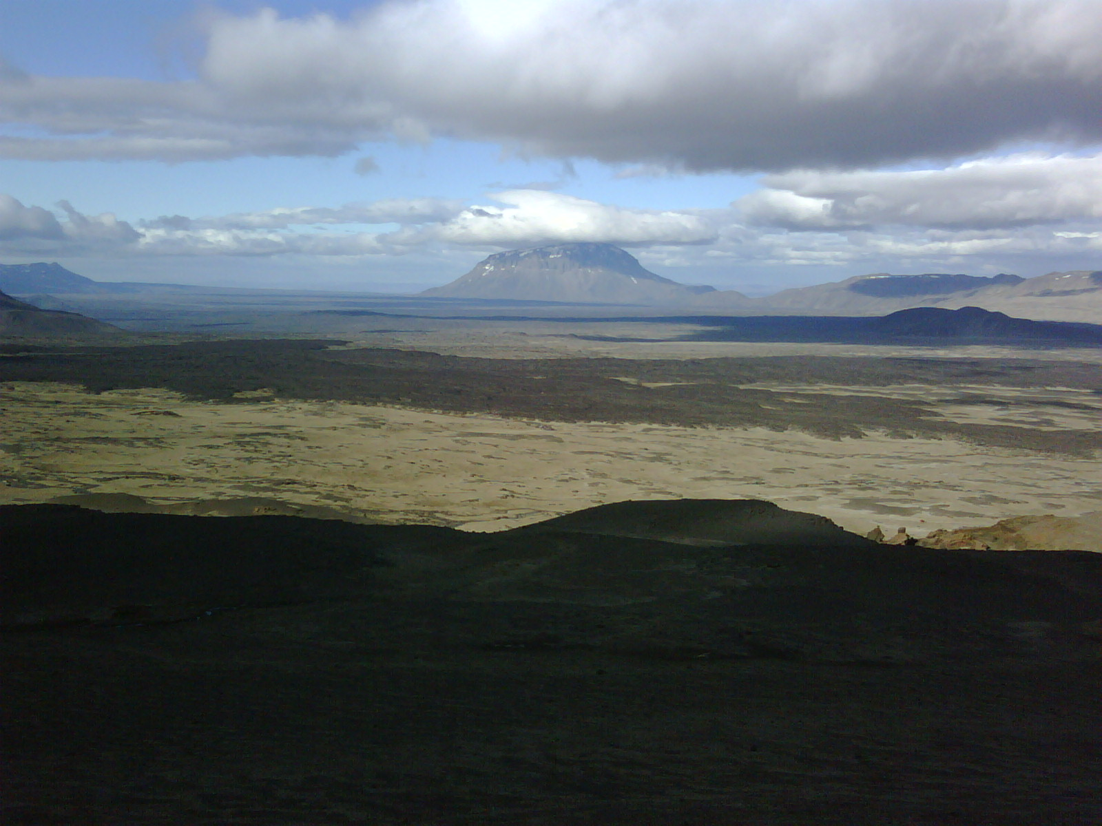 Ódáðahraun